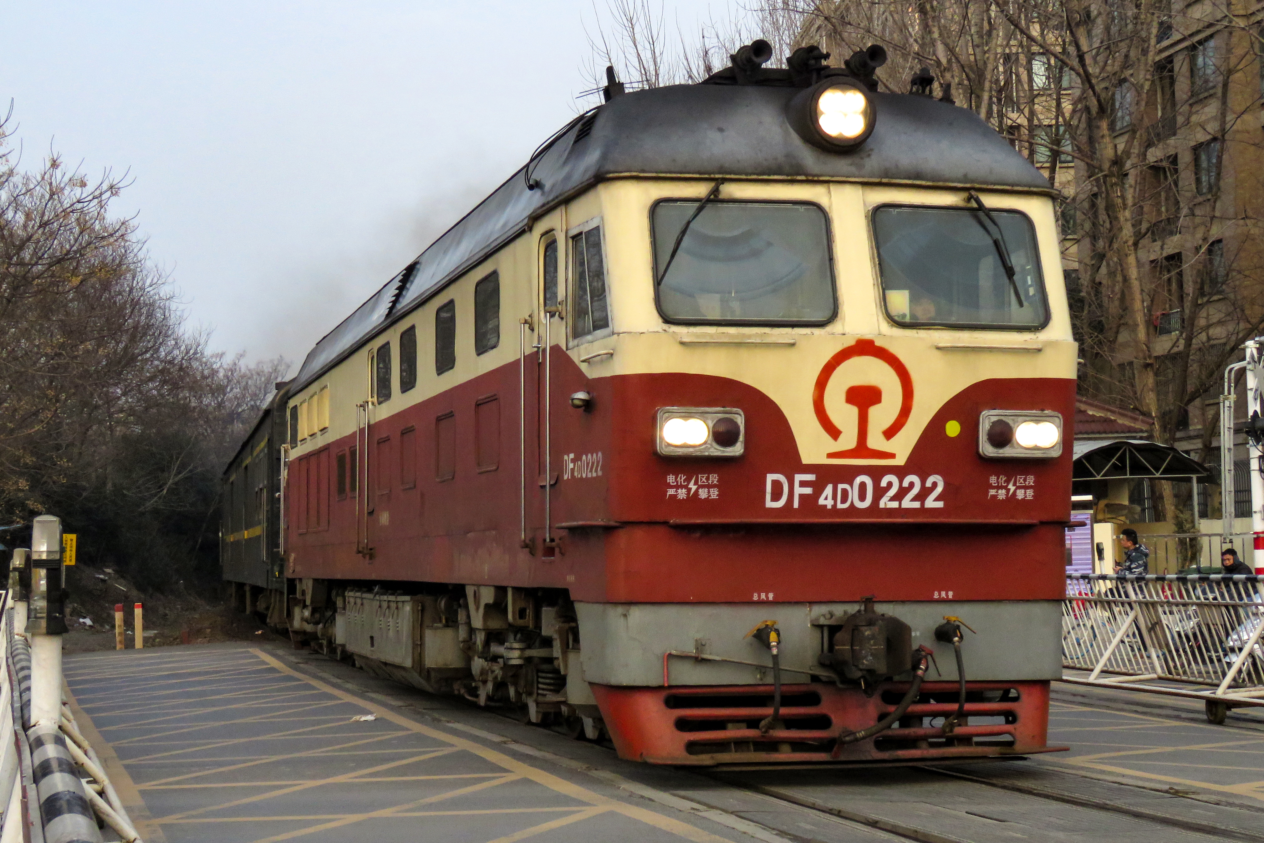 K155 from Nanjing to Kunming. Next time I may try to capture the trolleybus route K155 (displayed as "KISS" during Qixi festivals or Valentine's days) in Hangzhou.